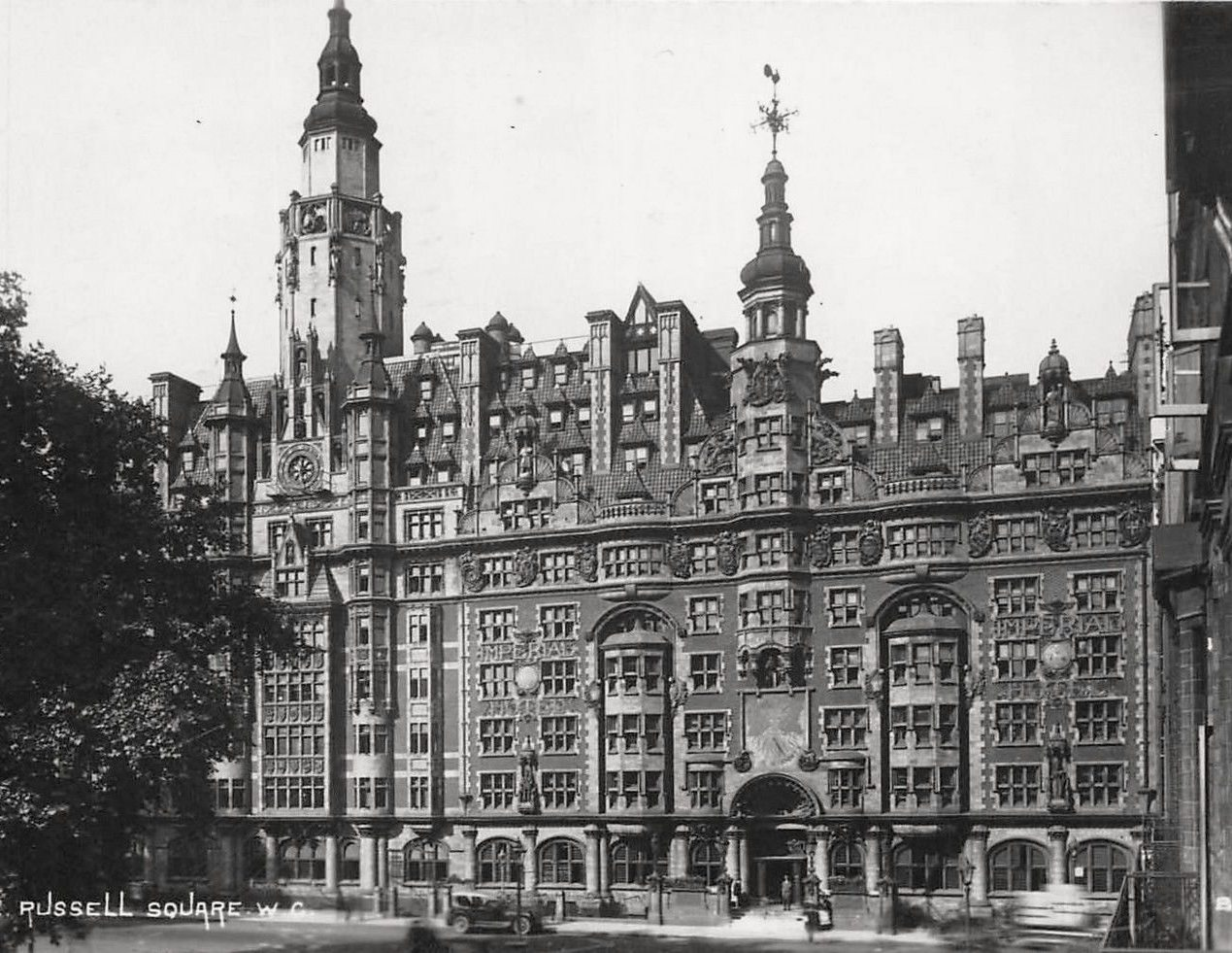 Imperial Hotel London, designed by Charles Fitzroy Doll, built from 1905-1911, demolished in 1966/1967.